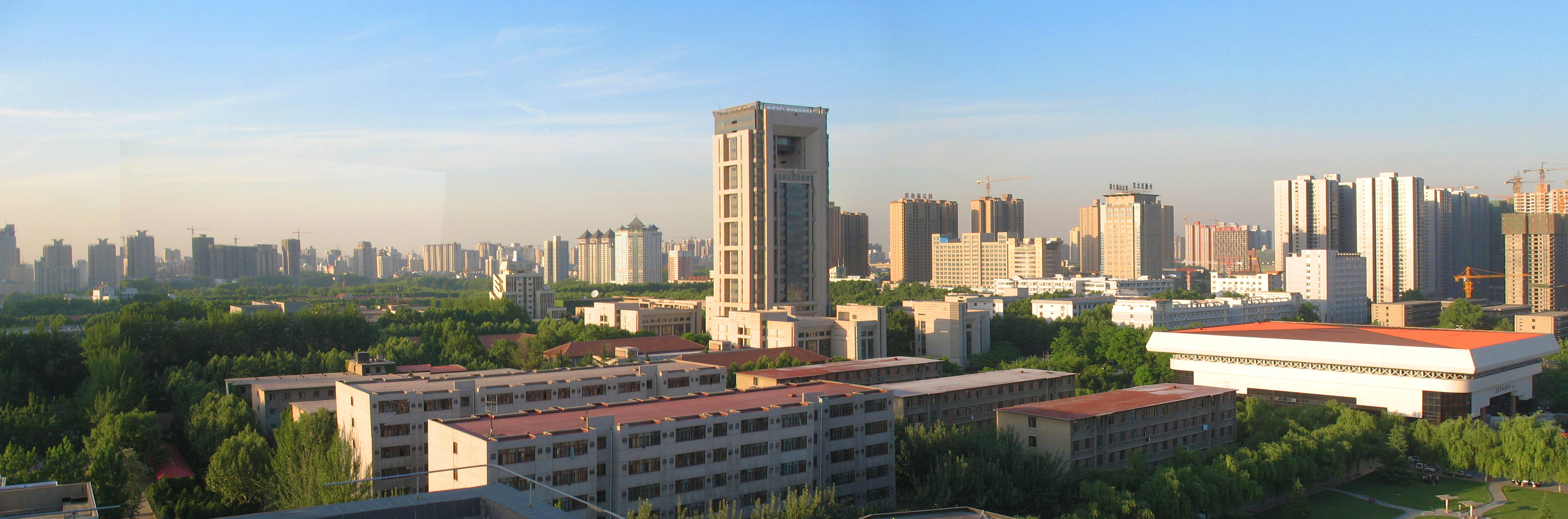 a campus view of Xi'an Jiaotong University(Xingqing Campus).